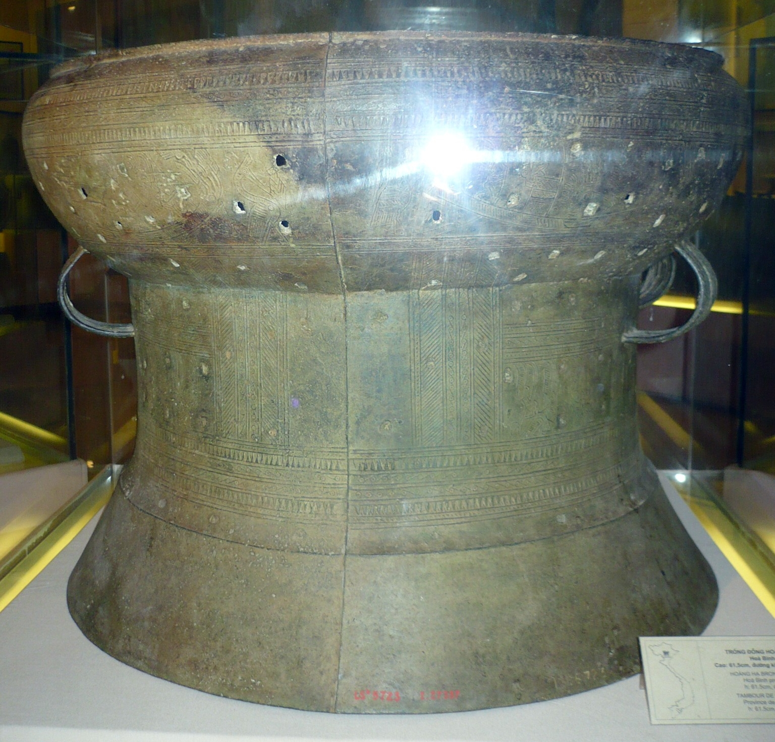 HOÀNG HẠ BRONZE DRUM Hòa Bình Province h: 61.5cm, d: 79cm